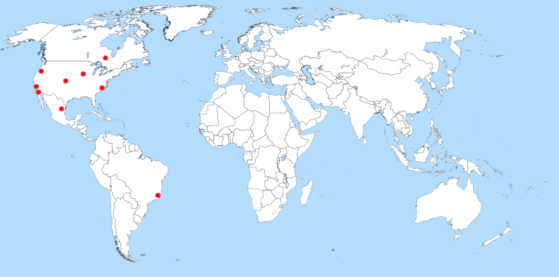 Map of centres of the Living Word new religious movement worldwide.